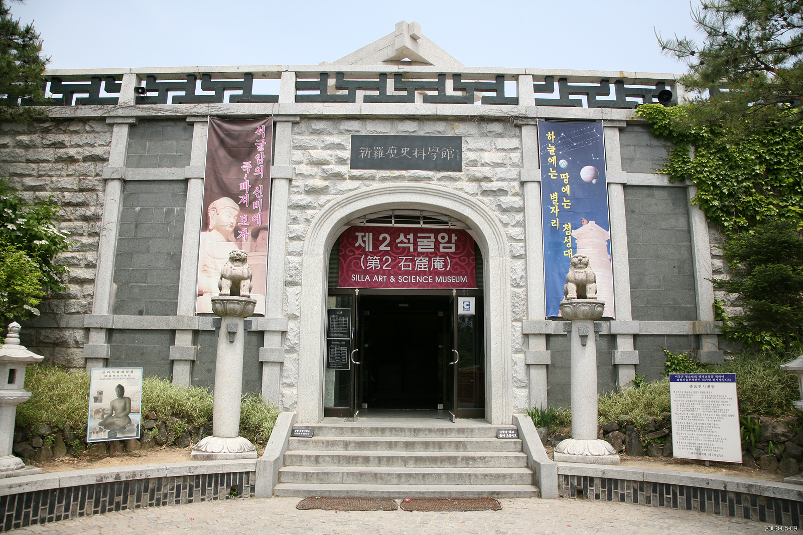 Gyeongju, North Gyeongsang province, South Korea